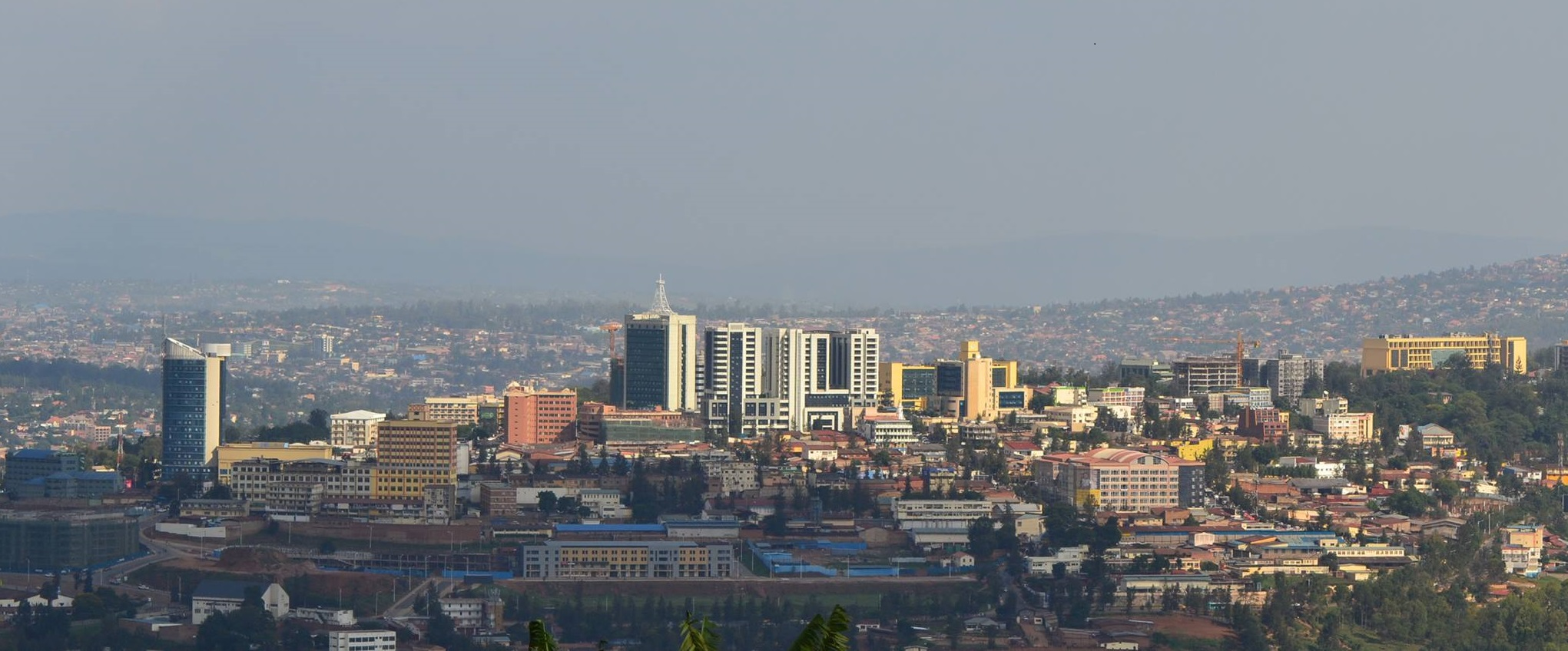 View of down town Kigali